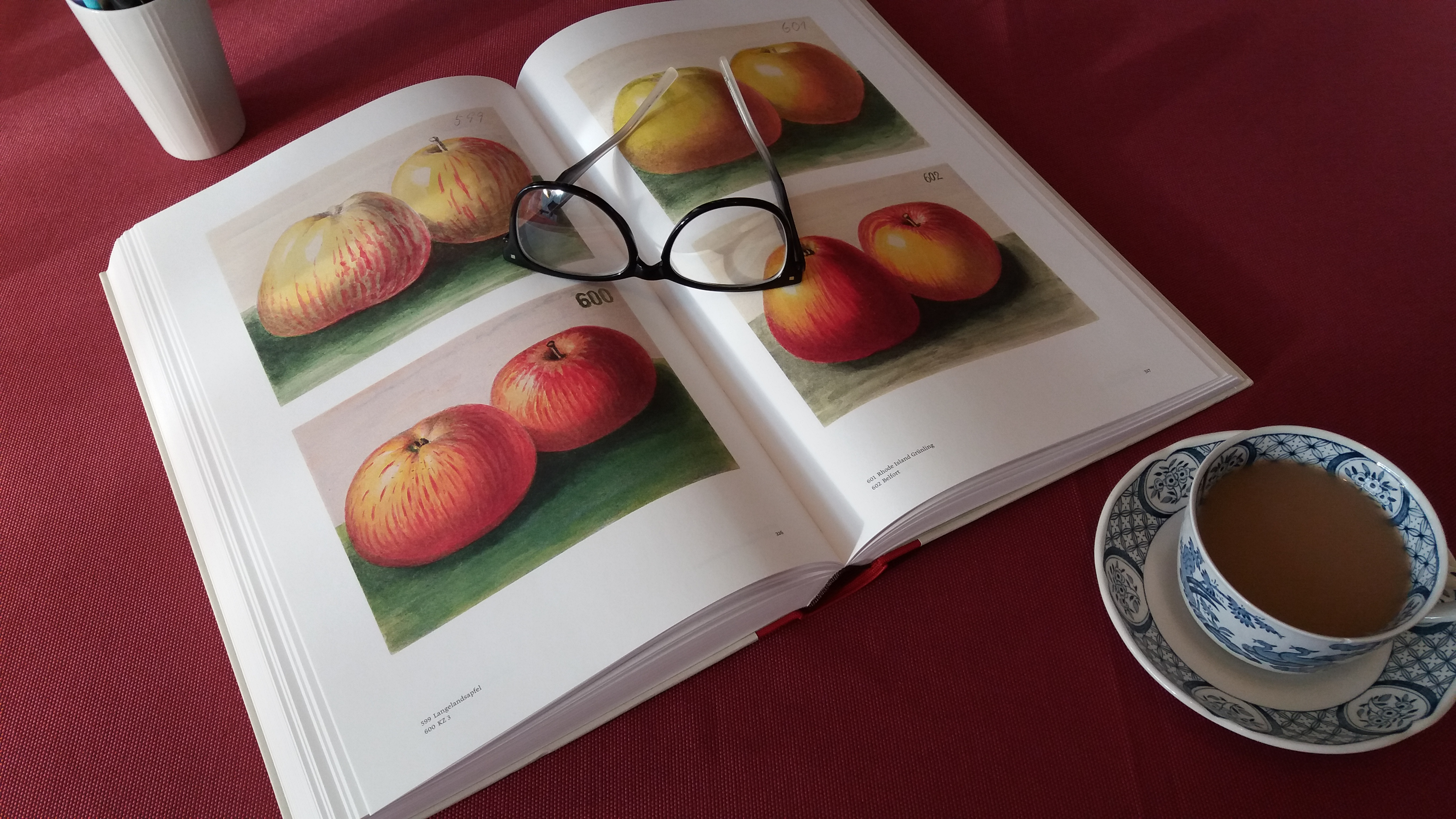 Korbinian Aigner: Äpfel und Birnen. Das Gesamtwerk. Matthes & Seitz, Berlin 2013